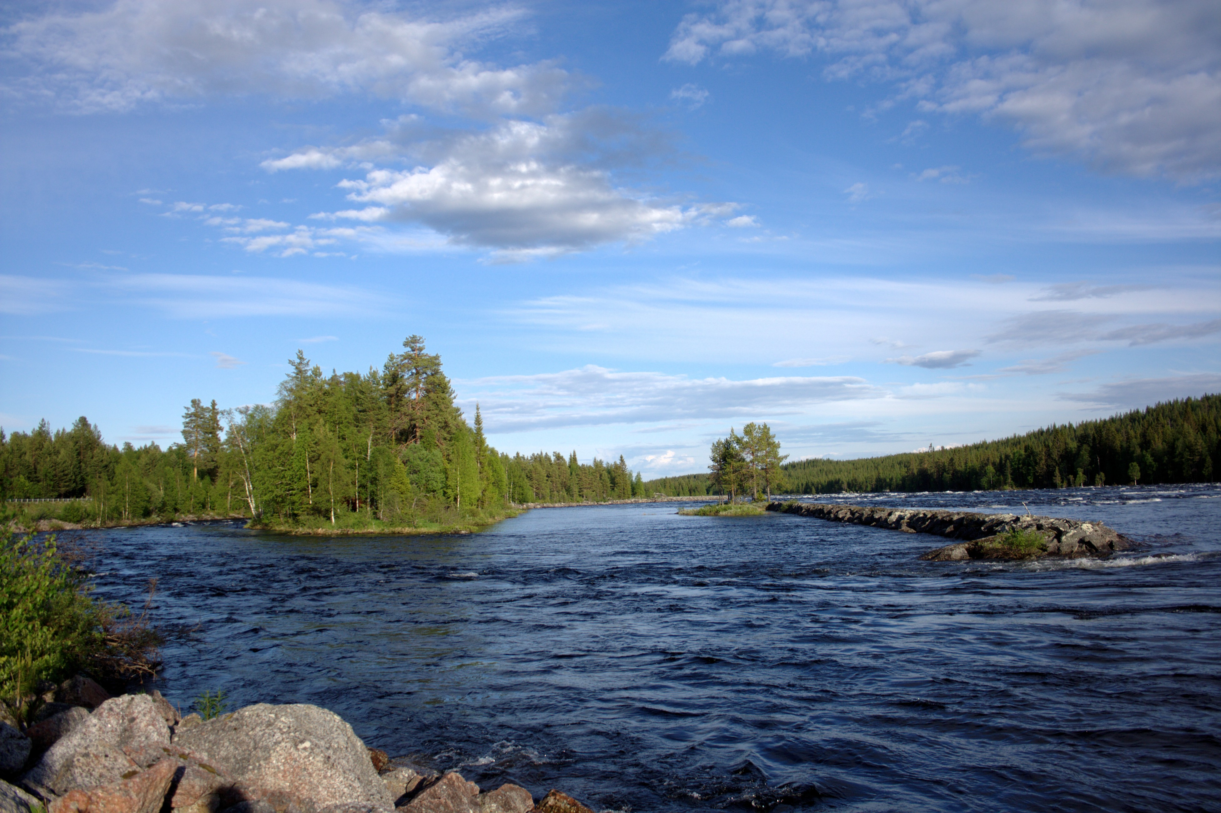 The Beuka rapid in the Vindel river